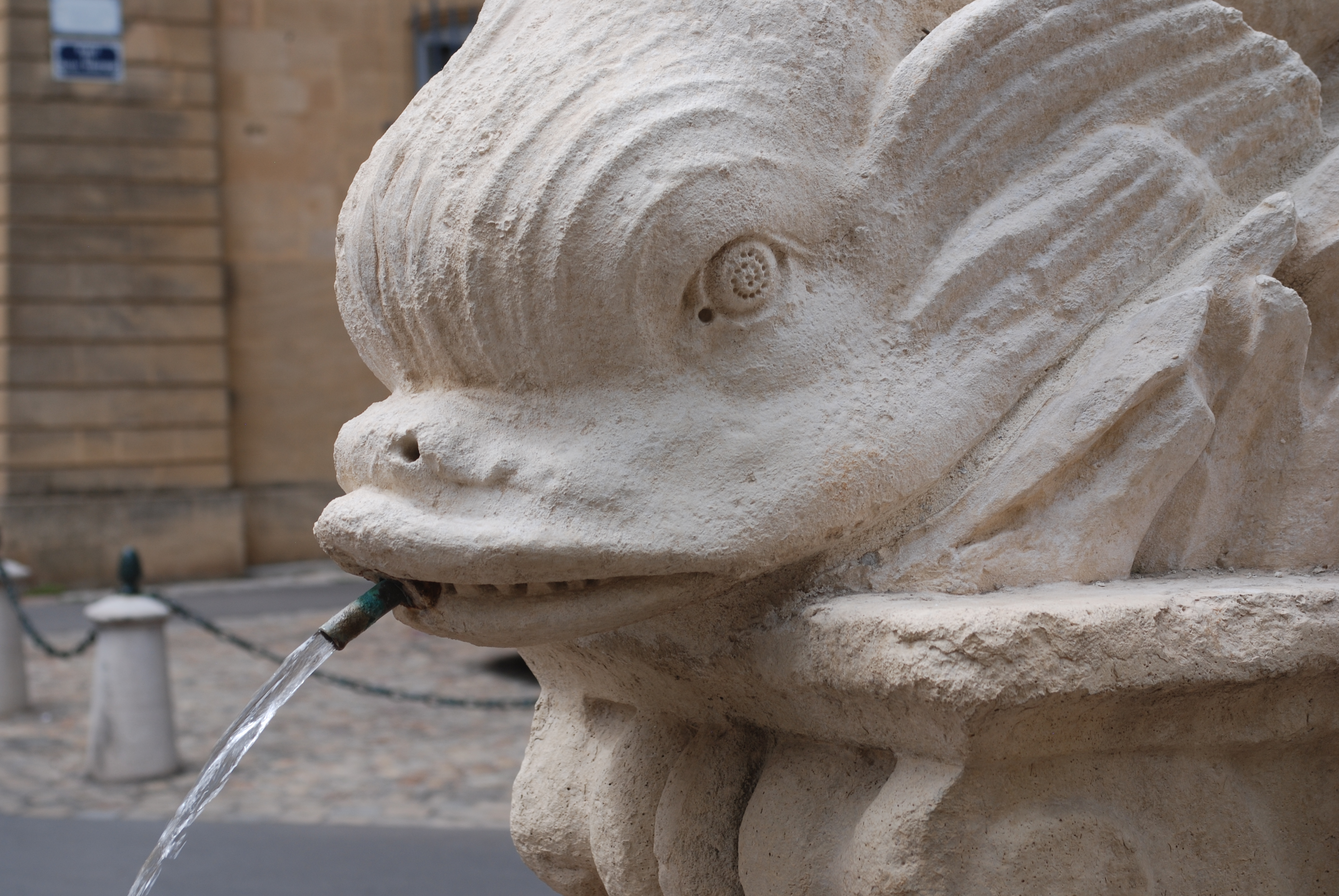 Place des Quatre-Dauphins, Aix-en-Provence